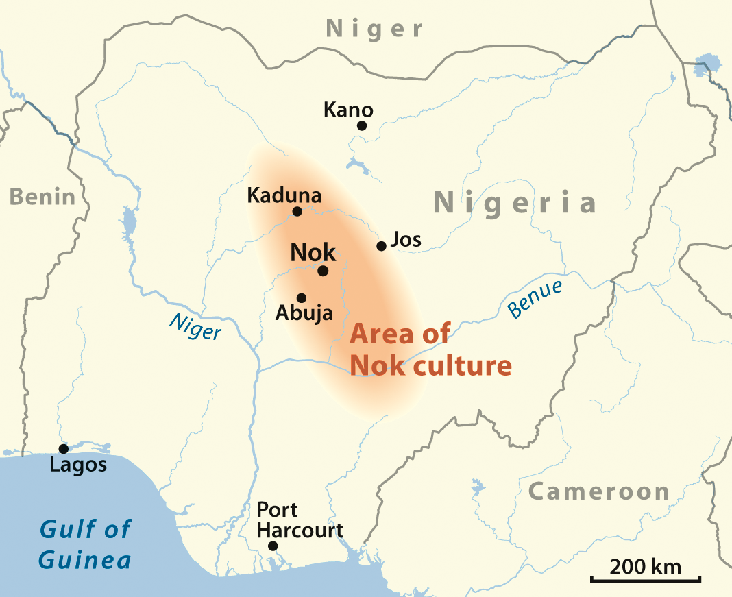 Area of the Nok culture, English version